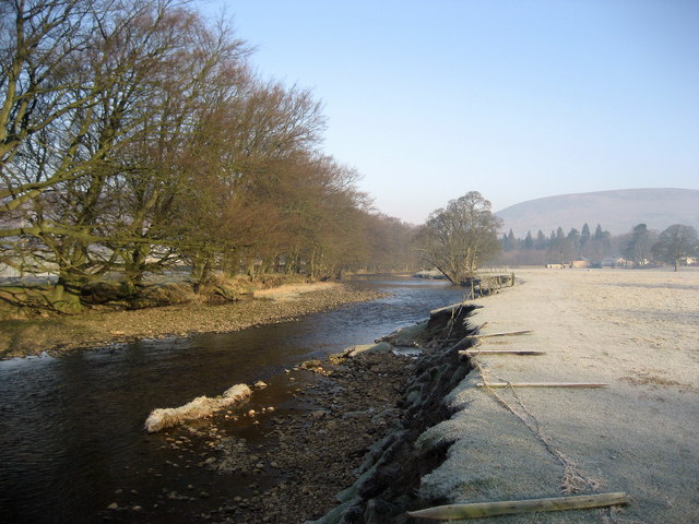 River Hodder The river south of Dunsop Bridge, not far from Thorneyholme Hall which is visible in the distance. Temperature was -5C when this photograph was taken.